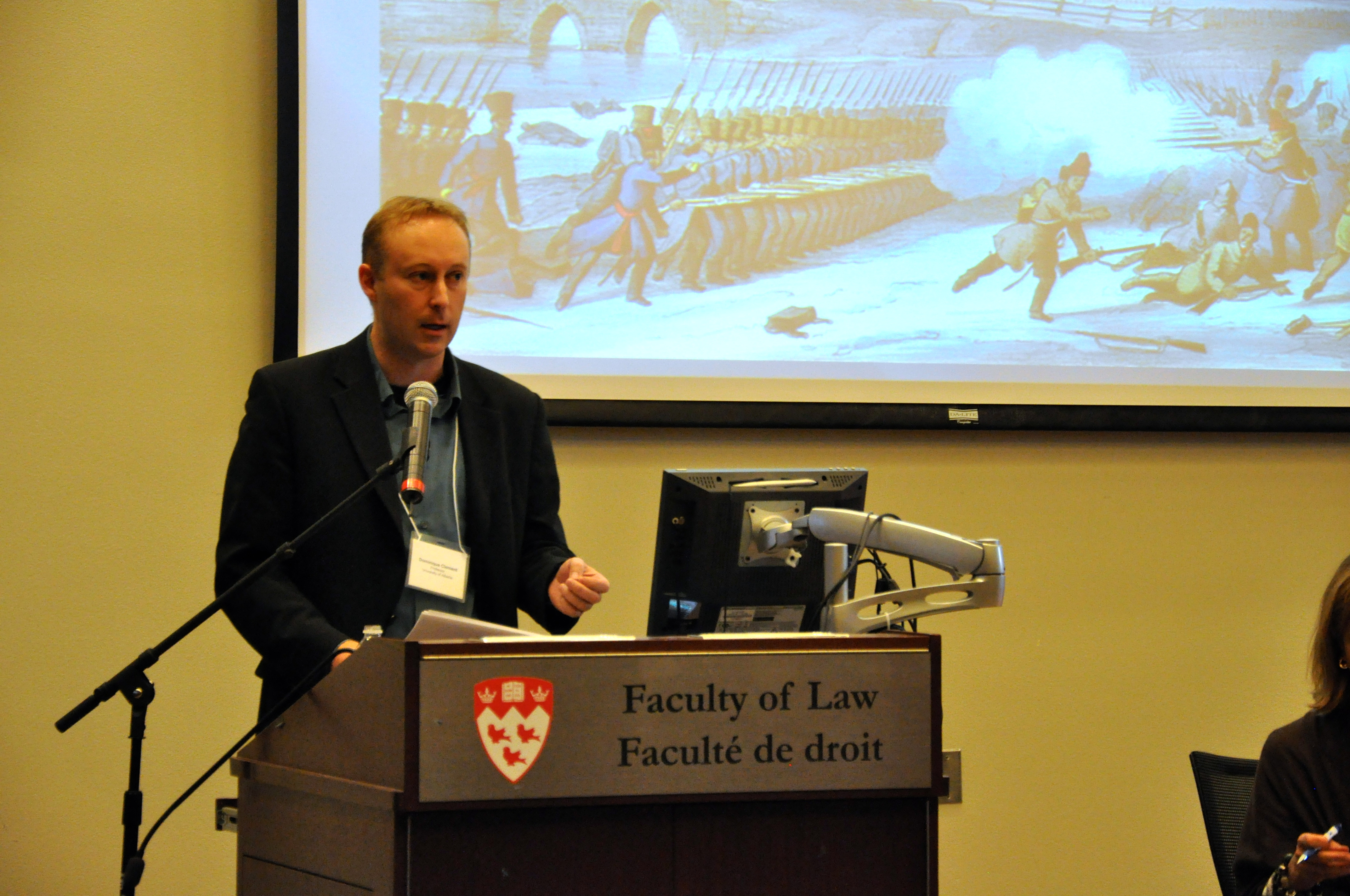 Dr. Dominique Clément at the McGill Faculty of Law